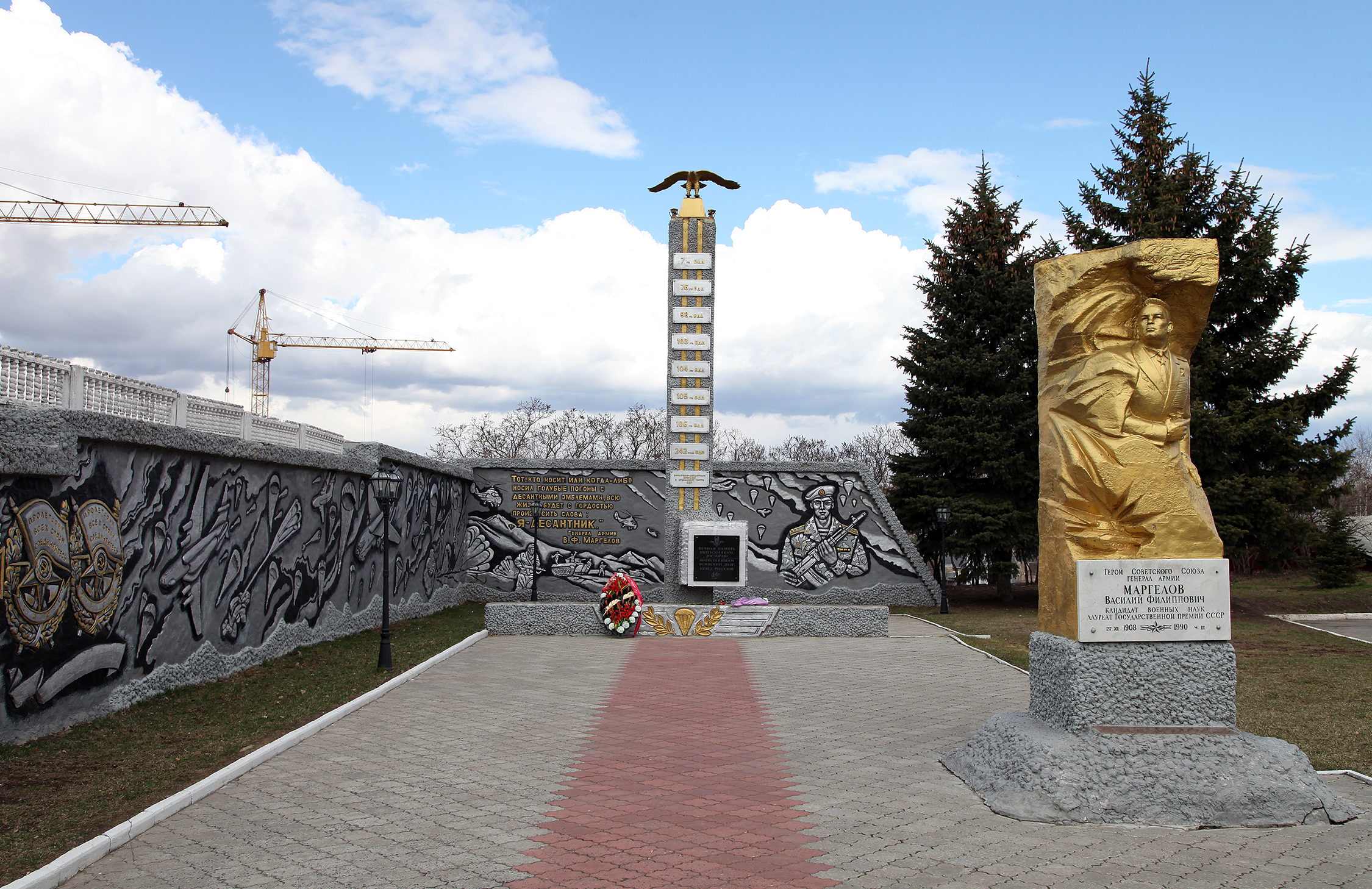 Monuments